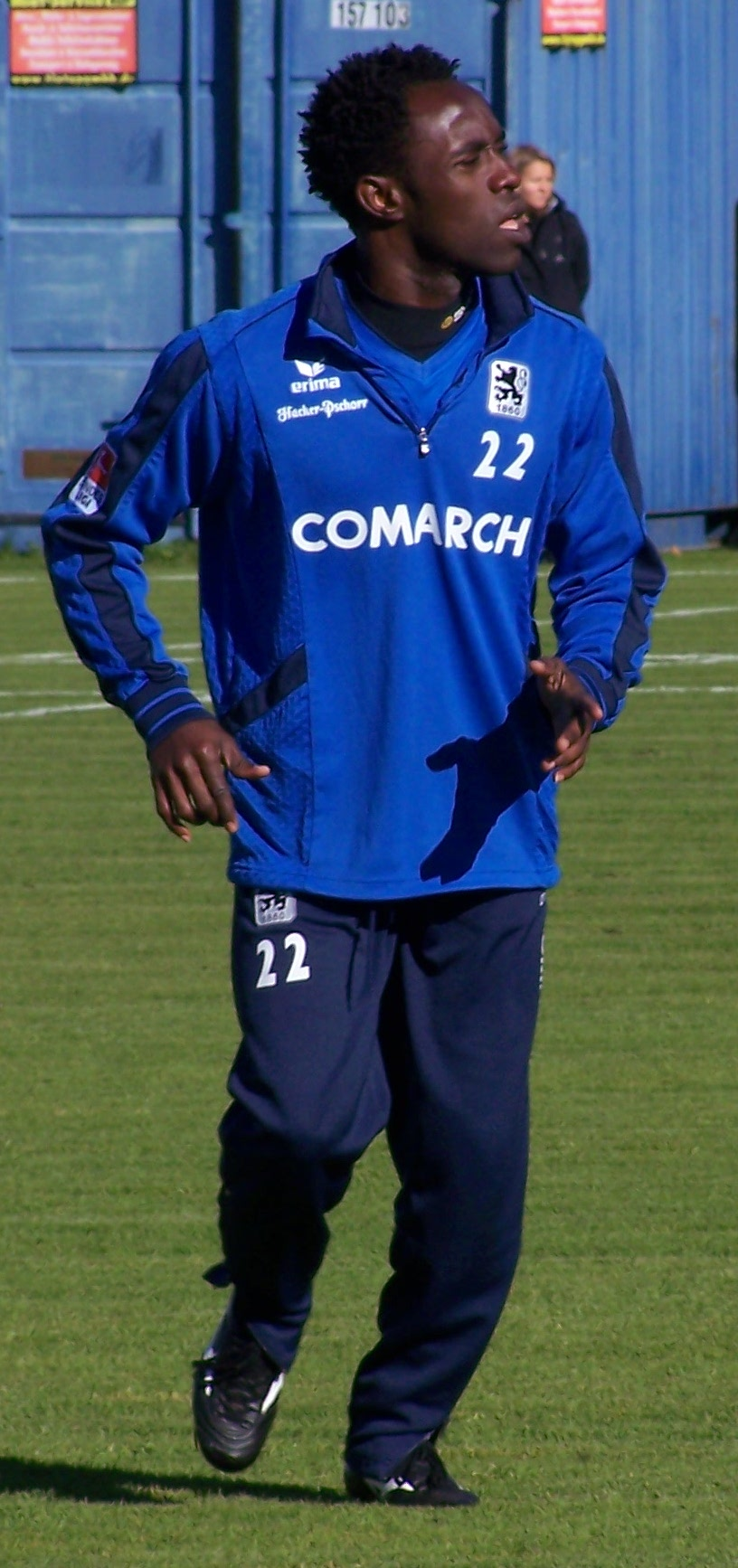 Eke Uzoma, 1860 munich, training